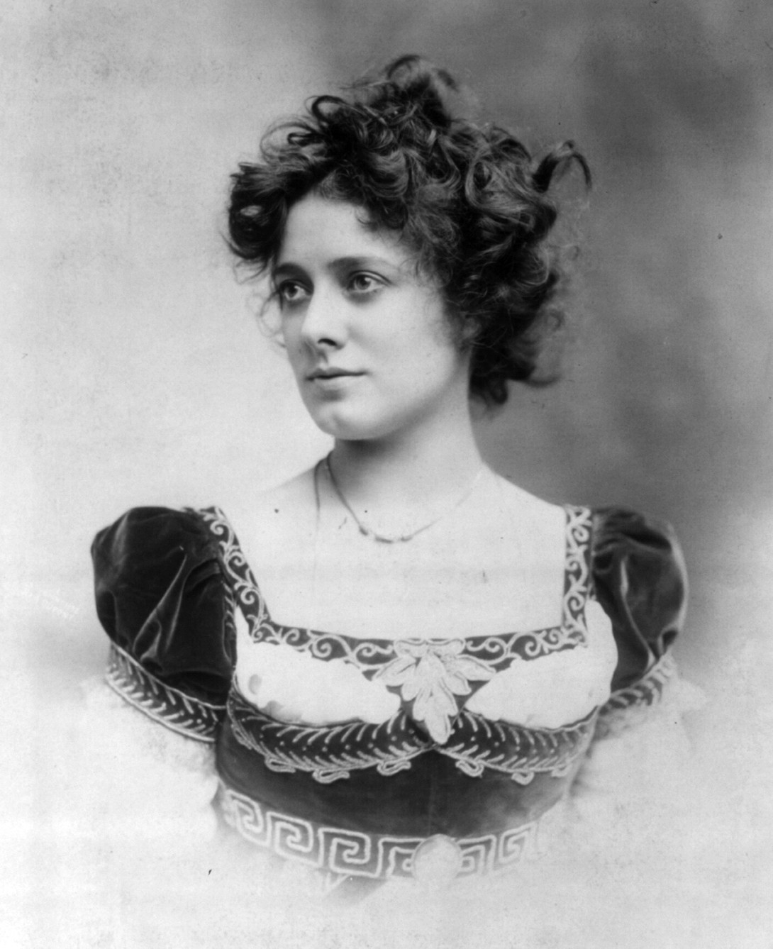 Julia Marlowe. Bust, facing left.